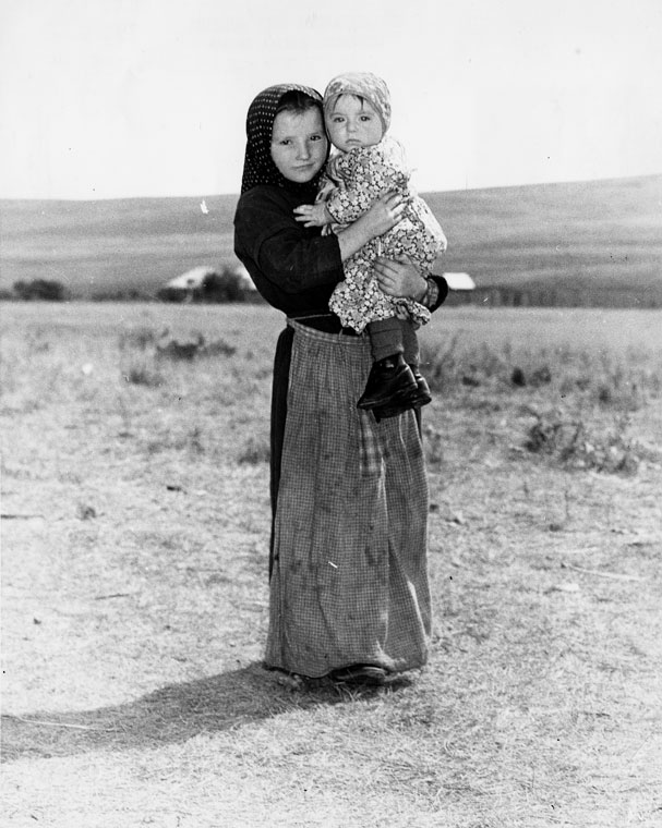 1950 20 cm x 24.2 cm. Black and white photograph. Photograph shows a Hutterite girl holding her baby sister. Alberta, Southern. Reproductions: 35mm negative available. To obtain high quality and larger reproductions of this image please visit the Galt Museum & Archives website: and include thIs number in your request: P19760226008